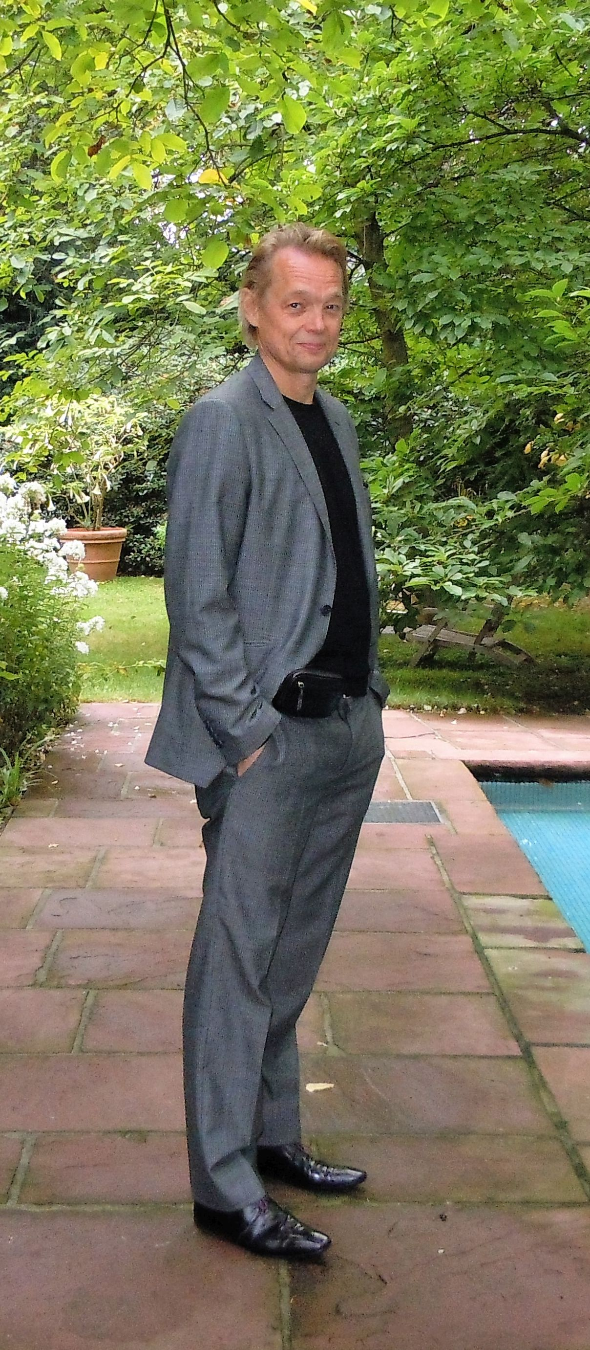 Detail from a photograph taken in Düsseldorf Jan. 30 2016